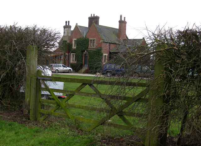 Former railway station. The former North Kelsey railway station, which has been converted into a house.